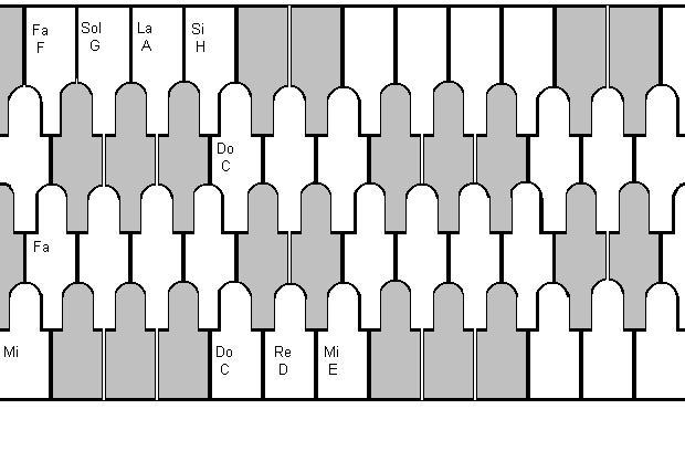 Keyboard for music instrument